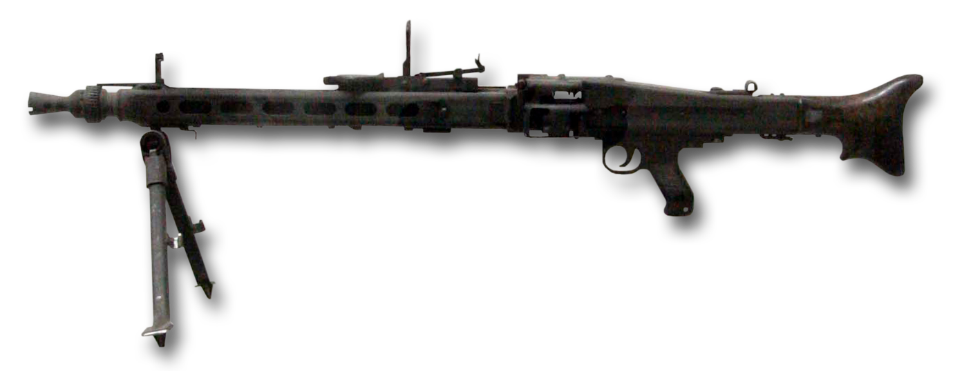 Probable MG 45/42V prototype in the Panzermuseum Munster (notice revised muzzle device and front receiver)